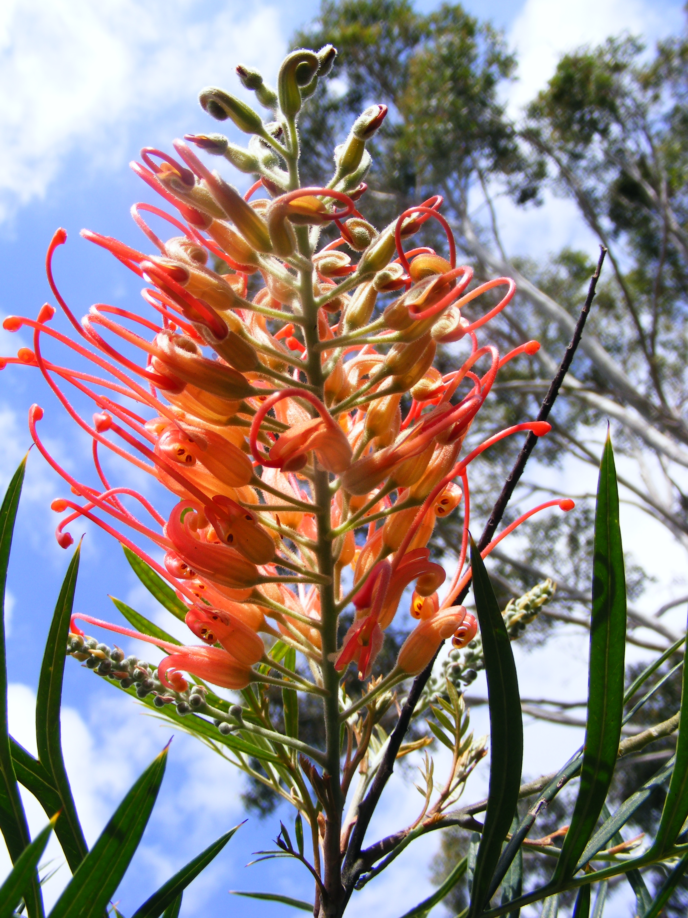 Australian native flower - this is one of the Grevillea spp